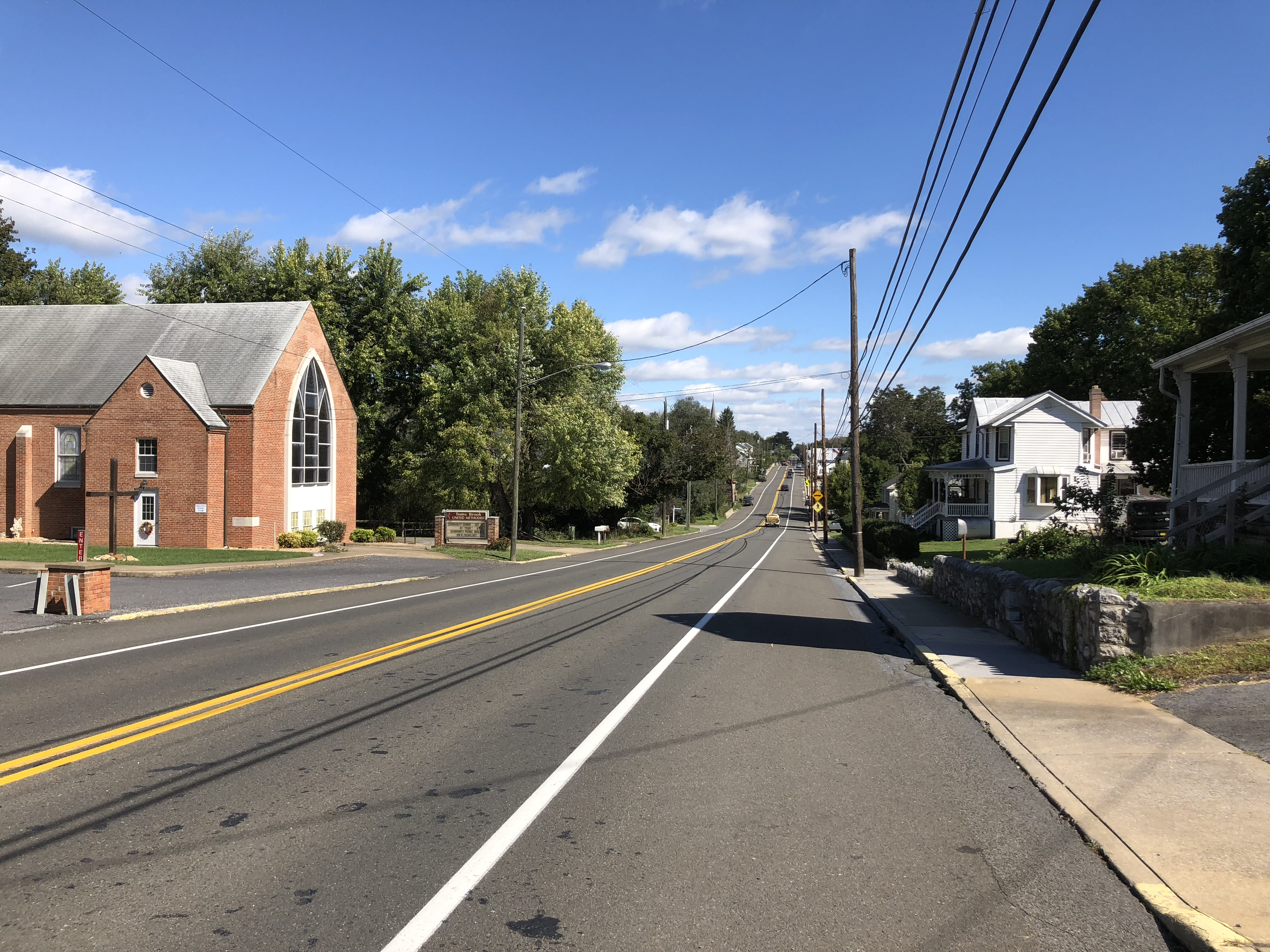 View north along U.S. Route 11 (Main Street) just south of Toms Brook Drive in Toms Brook, Shenandoah County, Virginia